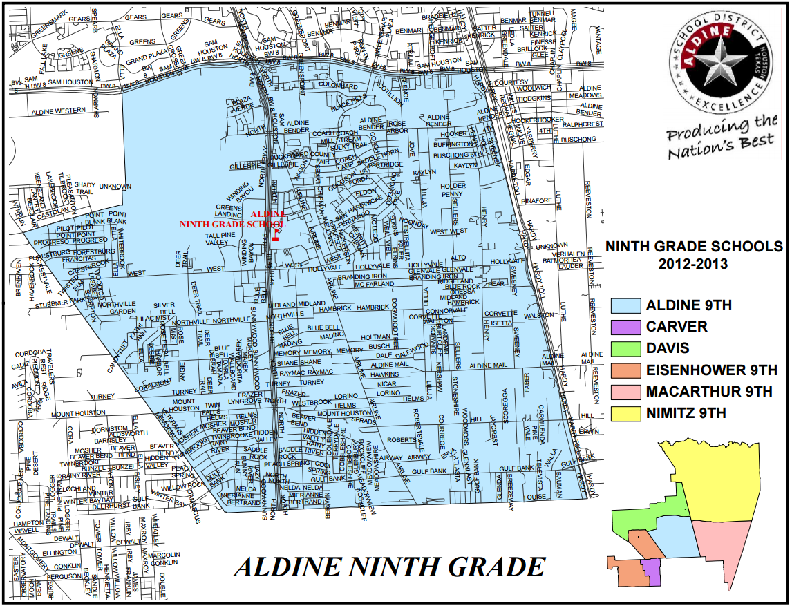 To the north the boundary is the Sam Houston Parkway (also known at Beltway 8), to the east is the Hardy Tollroad, to the south is an unspecified line just south of Gulf Bank, and to the west is Veterans Memorial Drive.